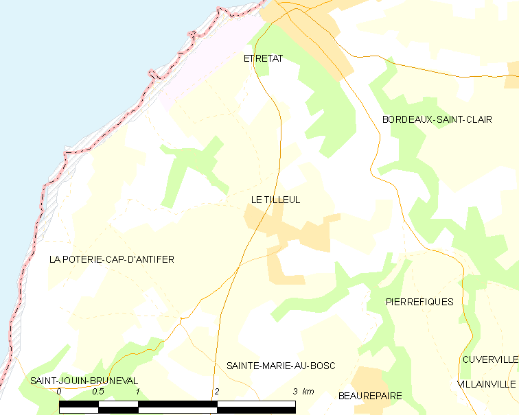 Map of French municipality Le Tilleul